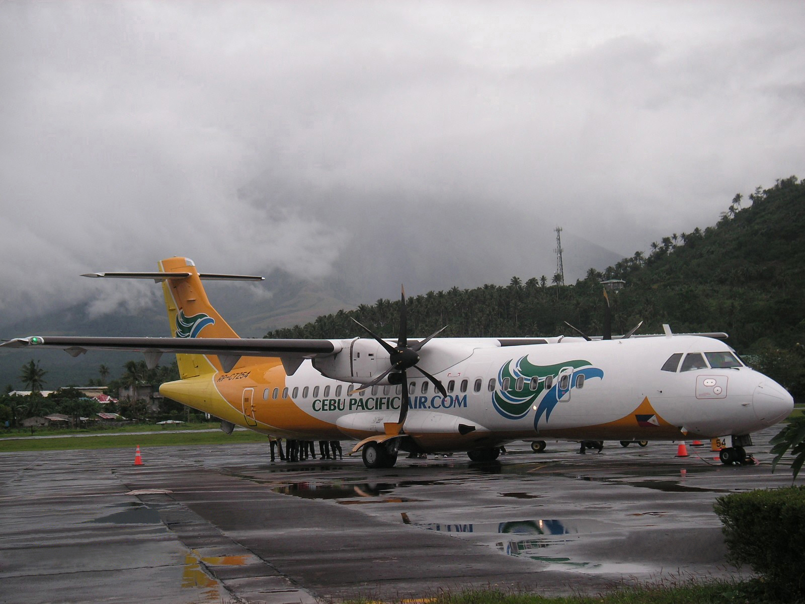 Cebu Pacific ATR72-500 aircraft flying from/to Cebu-Legazpi, v.v.